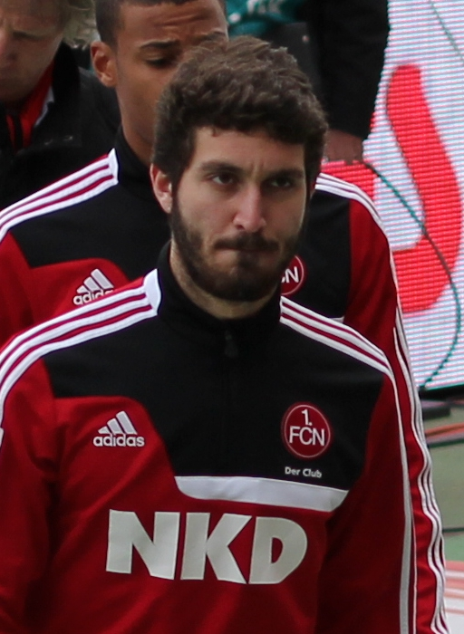 José Campaña, Spanish football player for German side 1. FC Nürnberg, 2013/14 season